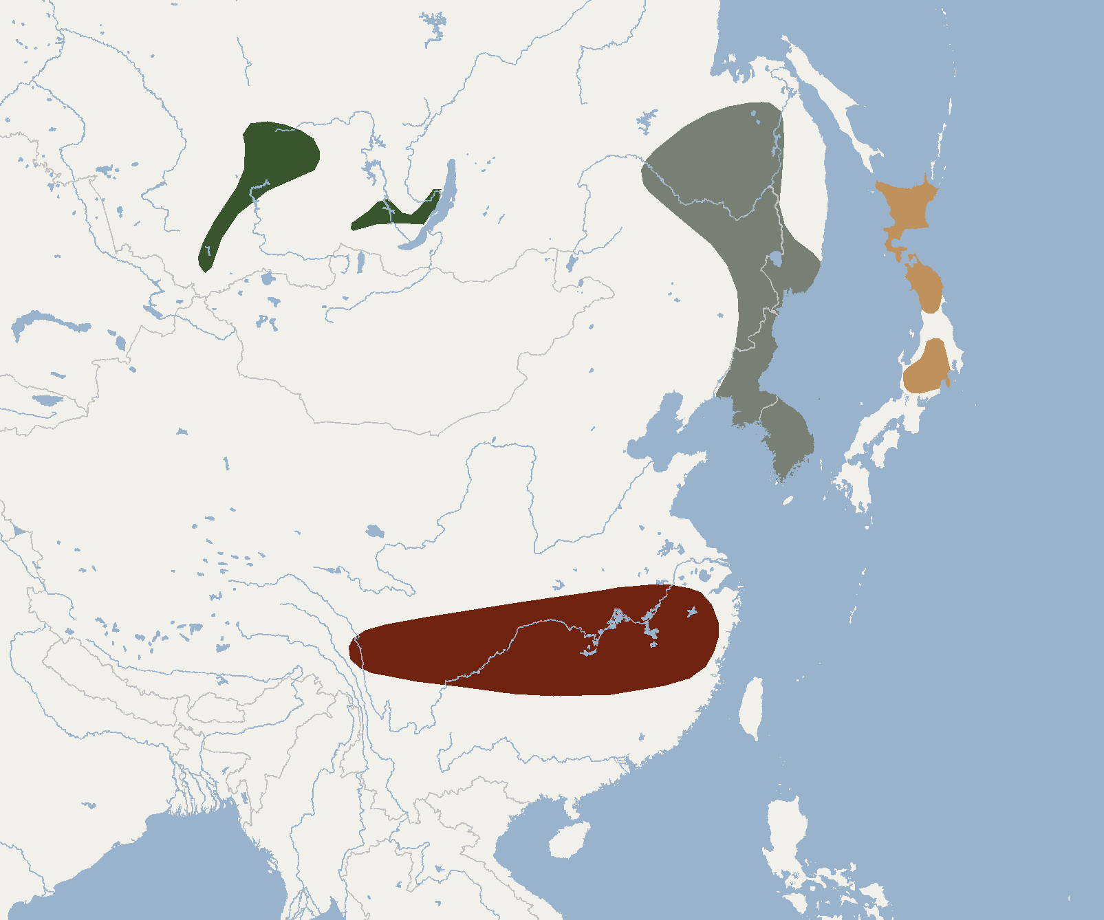 According to Bats of Russia website and Smith & Xie, 2008